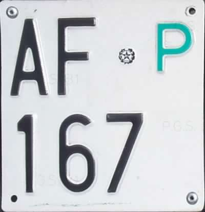 This photo represents an Italian (1976-2004 type) motorcycles, mopeds, agricultural or operating machines test plate for dealers.